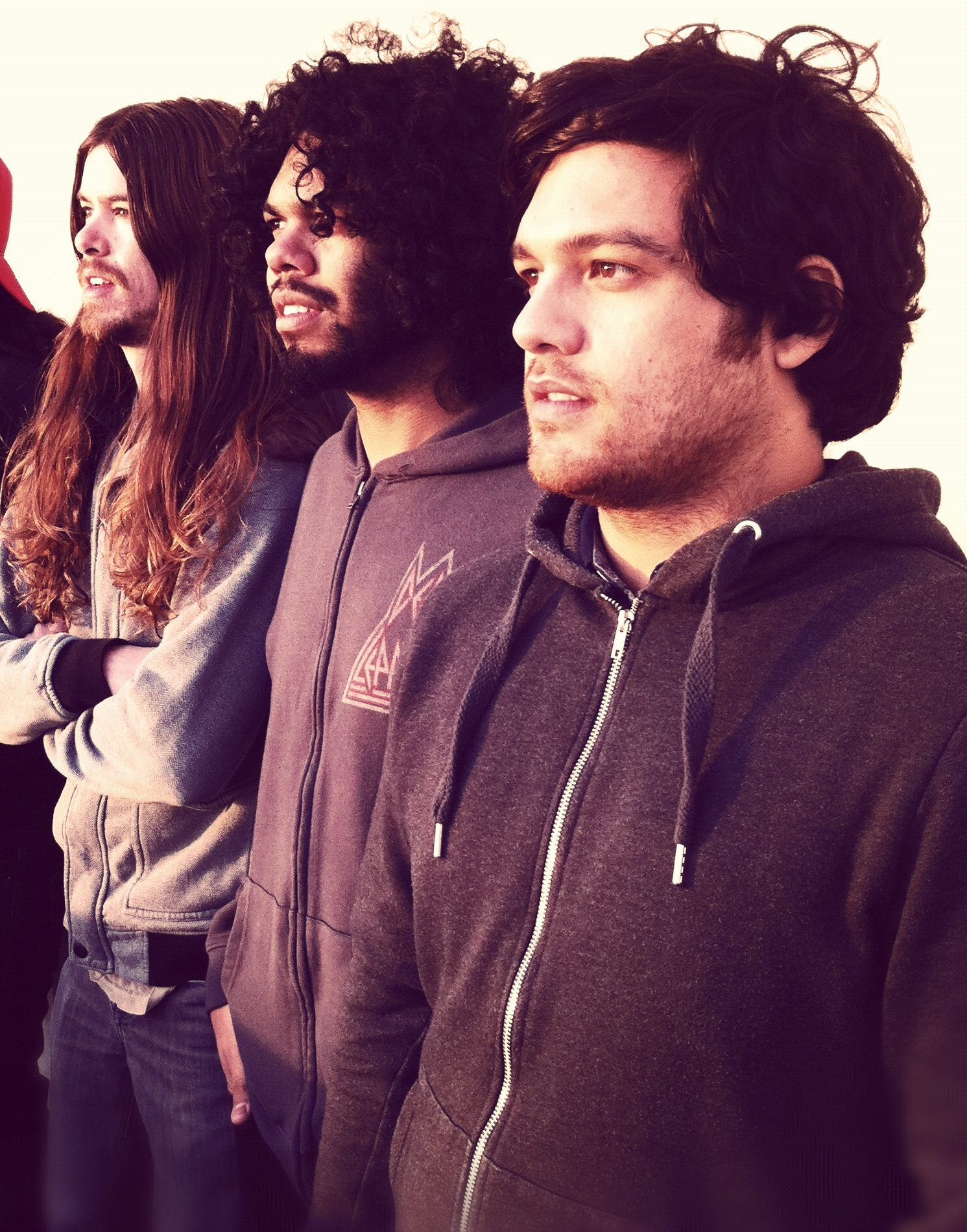 Happy Body Slow Brain 2011 Promo Photo